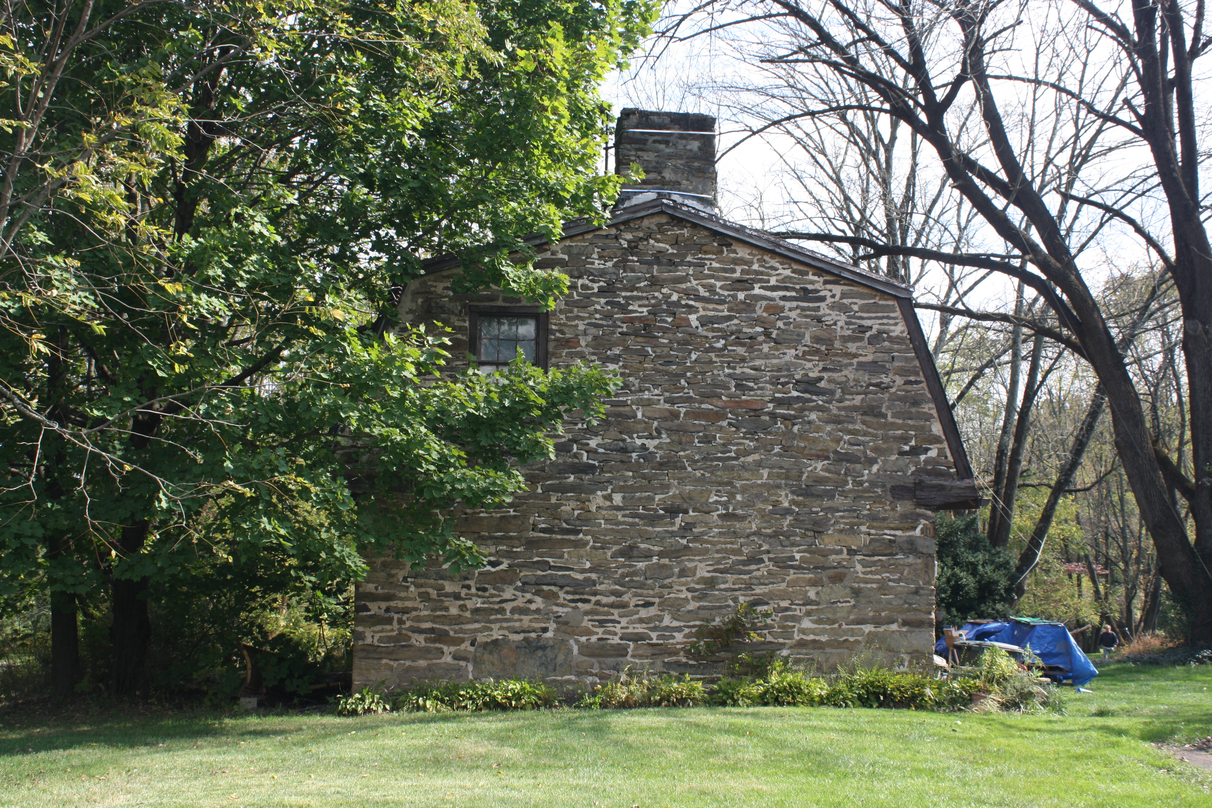 John Thompson House (Richboro, Pennsylvania) is a historic house near Richboro in Northampton Township, Bucks County, Pennsylvania, United States. It was built in 1740 and was owned by John Thompson, a local American Revolutionary War veteran. Side view. Object location40° 14′ 44″ N, 75° 00′ 32″ W